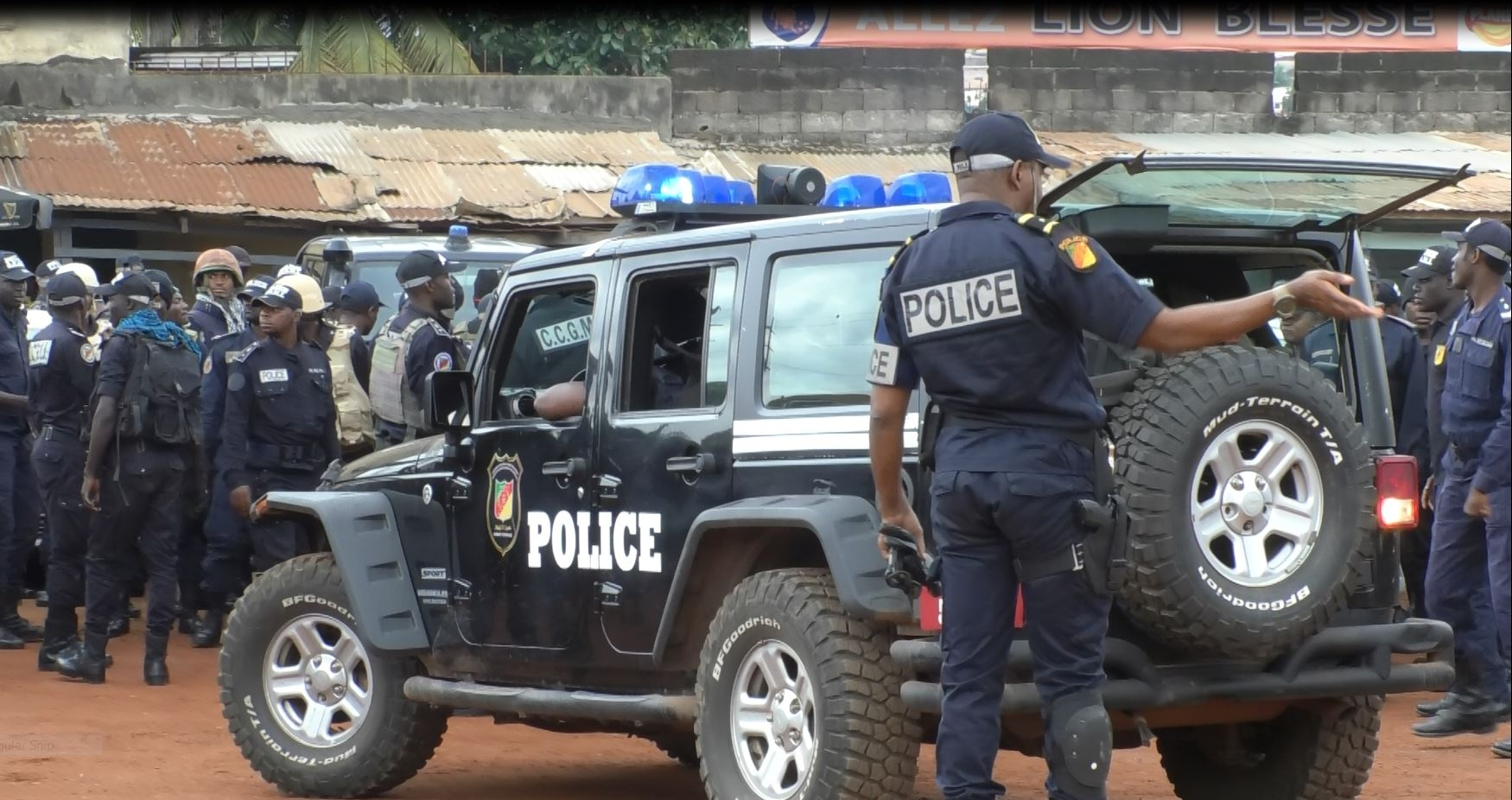 Deployment of the police at the Kondengui Central Prison, Yaounde, Cameroon, July 23, 2019. ( M. Kindzeka, VOA)